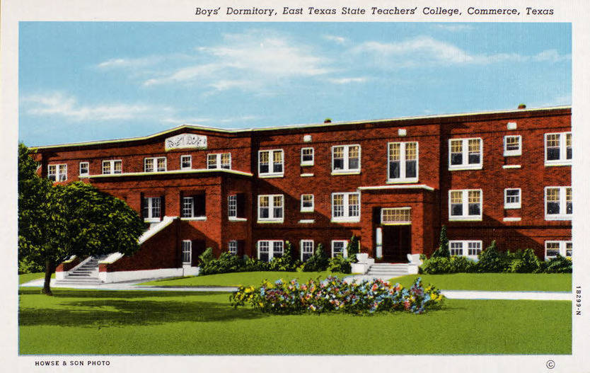 Postcard of the Boys Dormitory building at East Texas State Teachers College in Commerce.